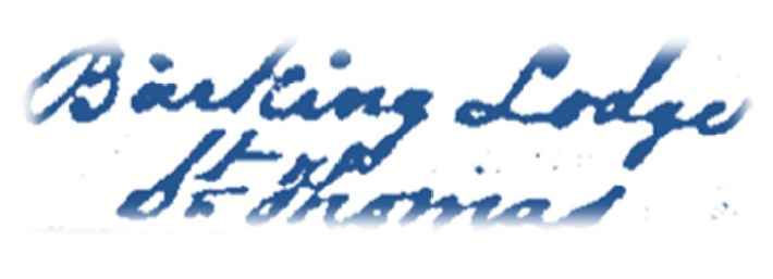 Barking Lodge, St. Thomas, Jamaica, from a birth entry transcription by W. Tilly, registrar, St Thomas, 1895 (CC2049) - reframed in blue